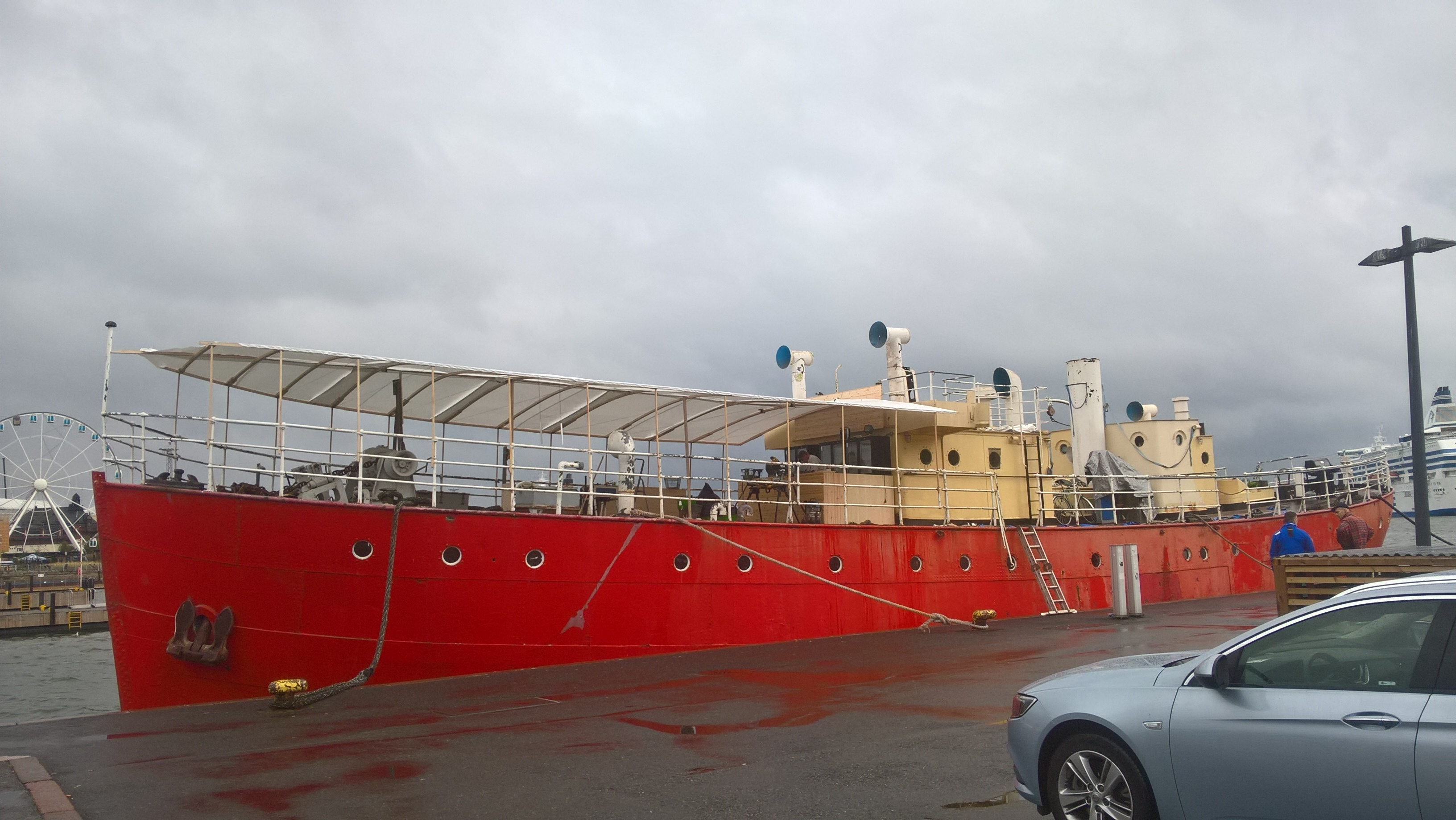 Light vessel VINGA